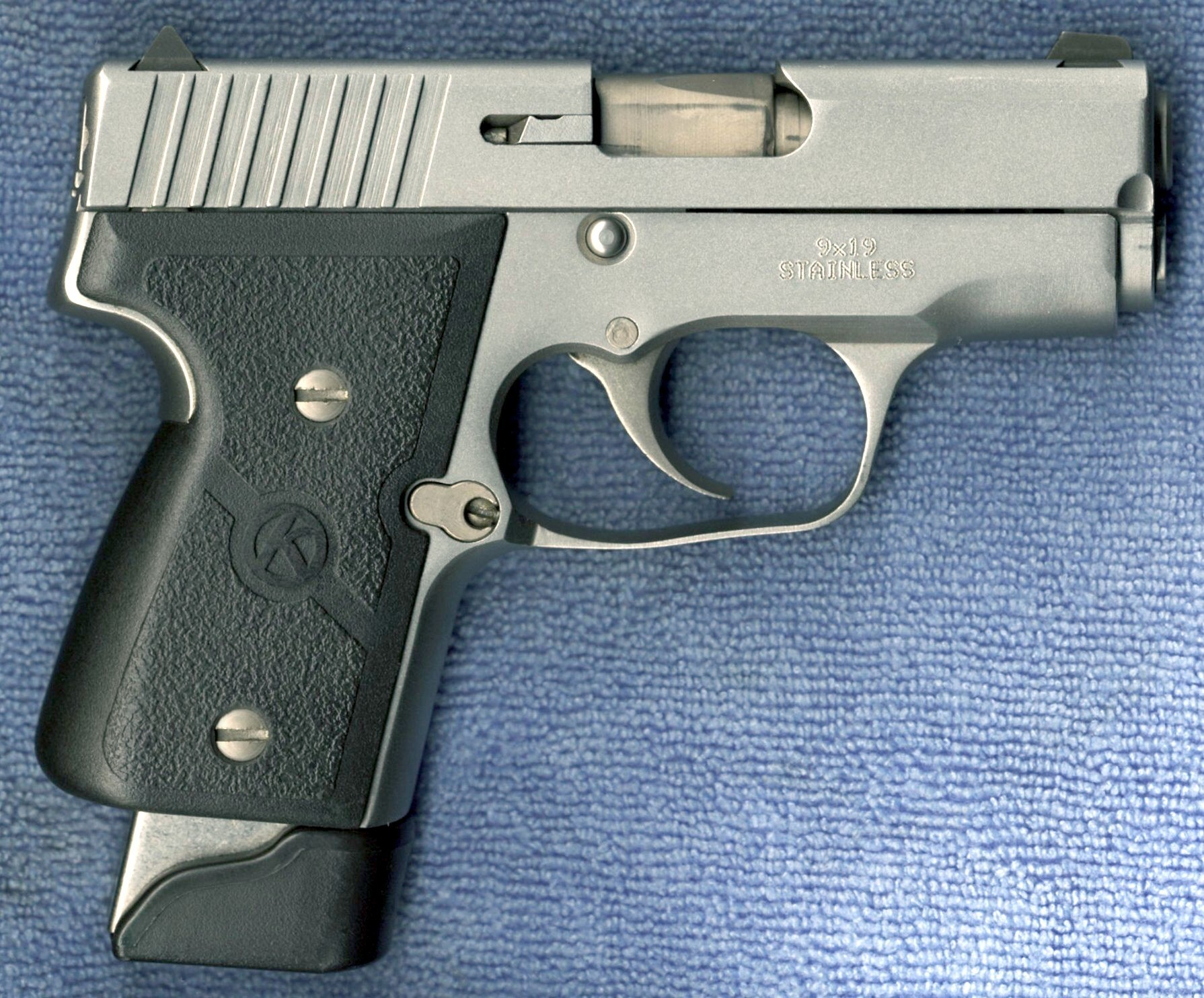 Kahr MK9 viewed from right. Note extended, 7 shot magazine; flush fit 6 shot magazines are also available. Serial number digitally obscured.